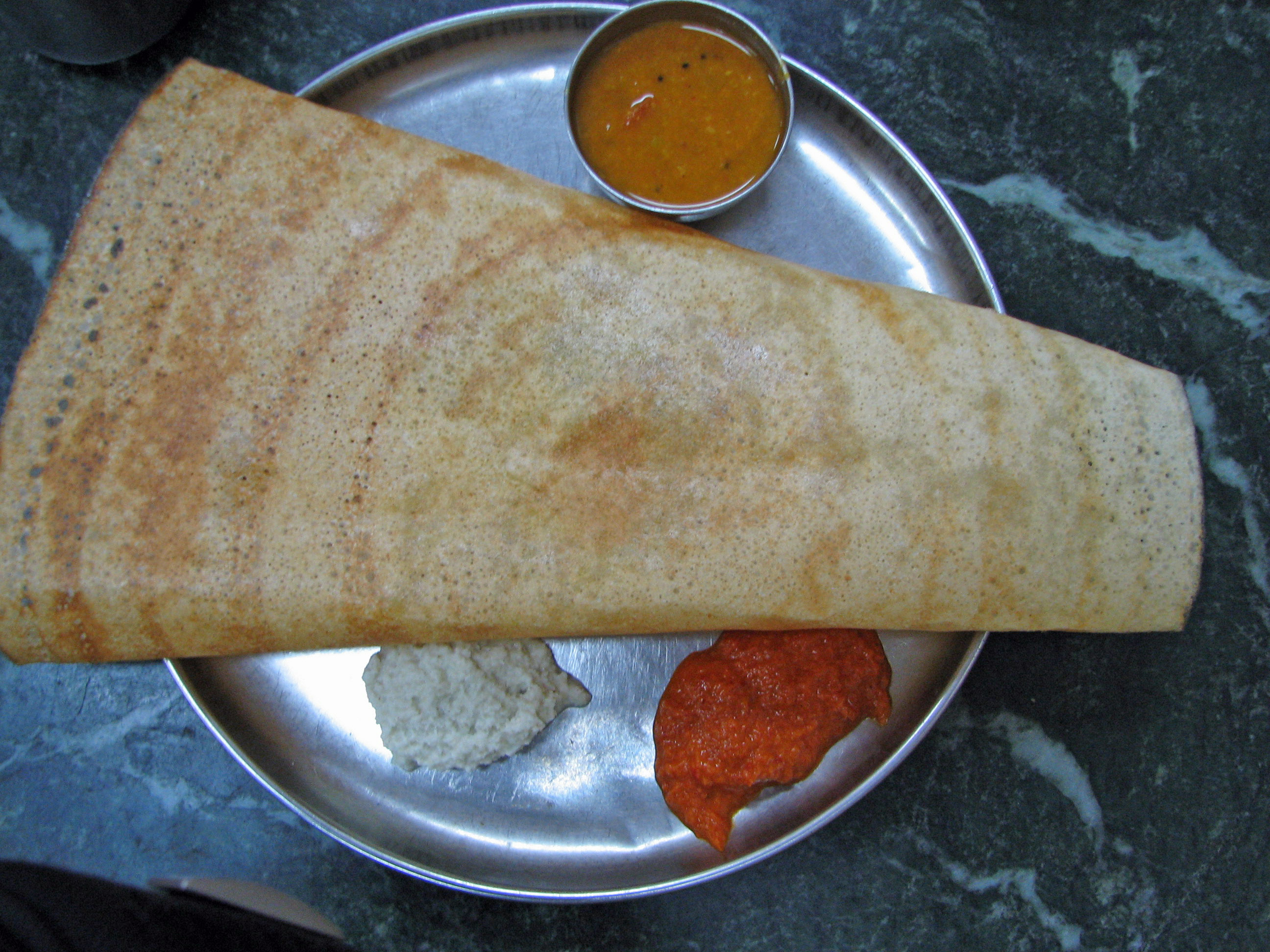 The Masala Dosa with Chatni